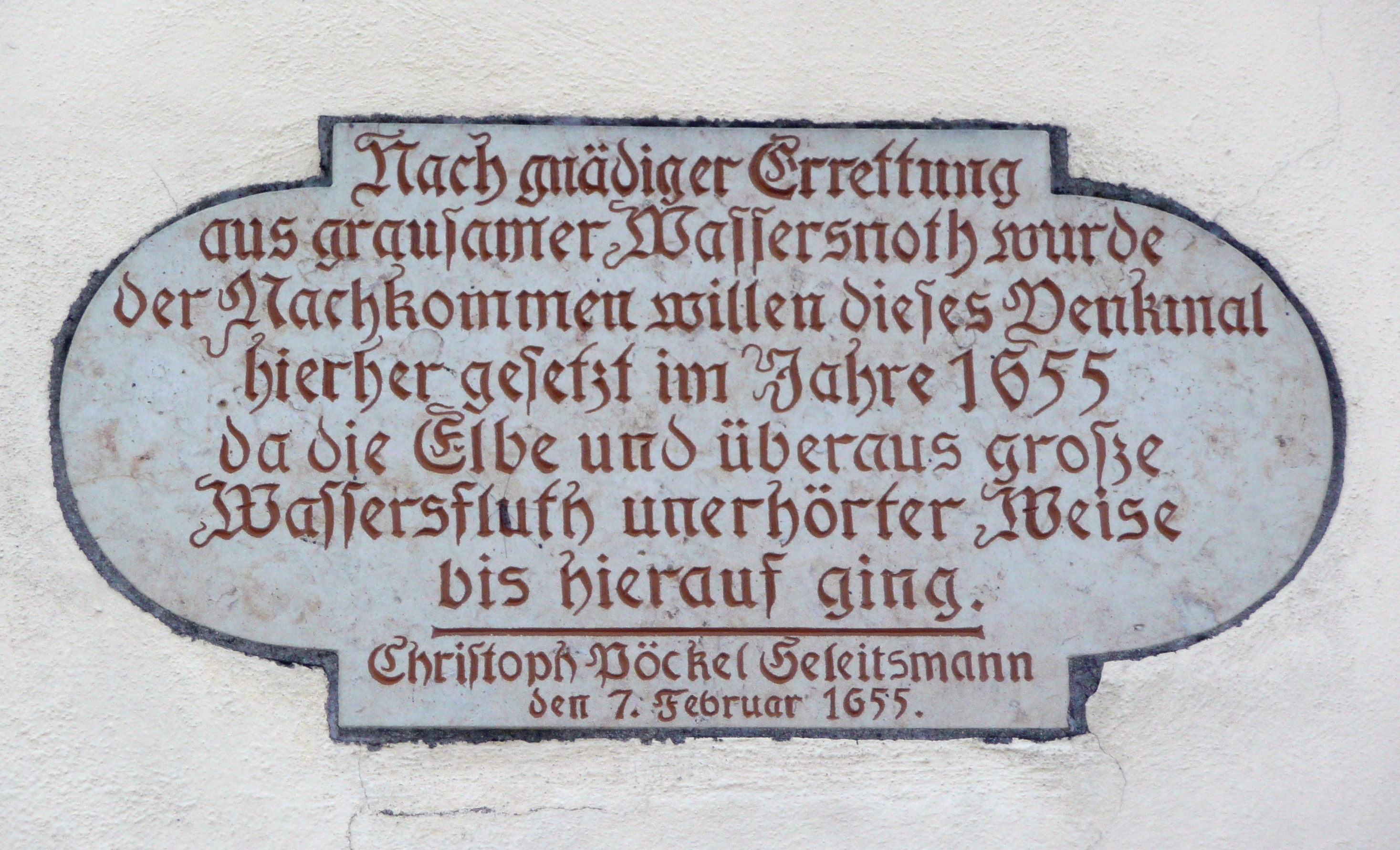 Pirna: View on a high-water mark. The mark evoked on the Elbe-flood 1655.